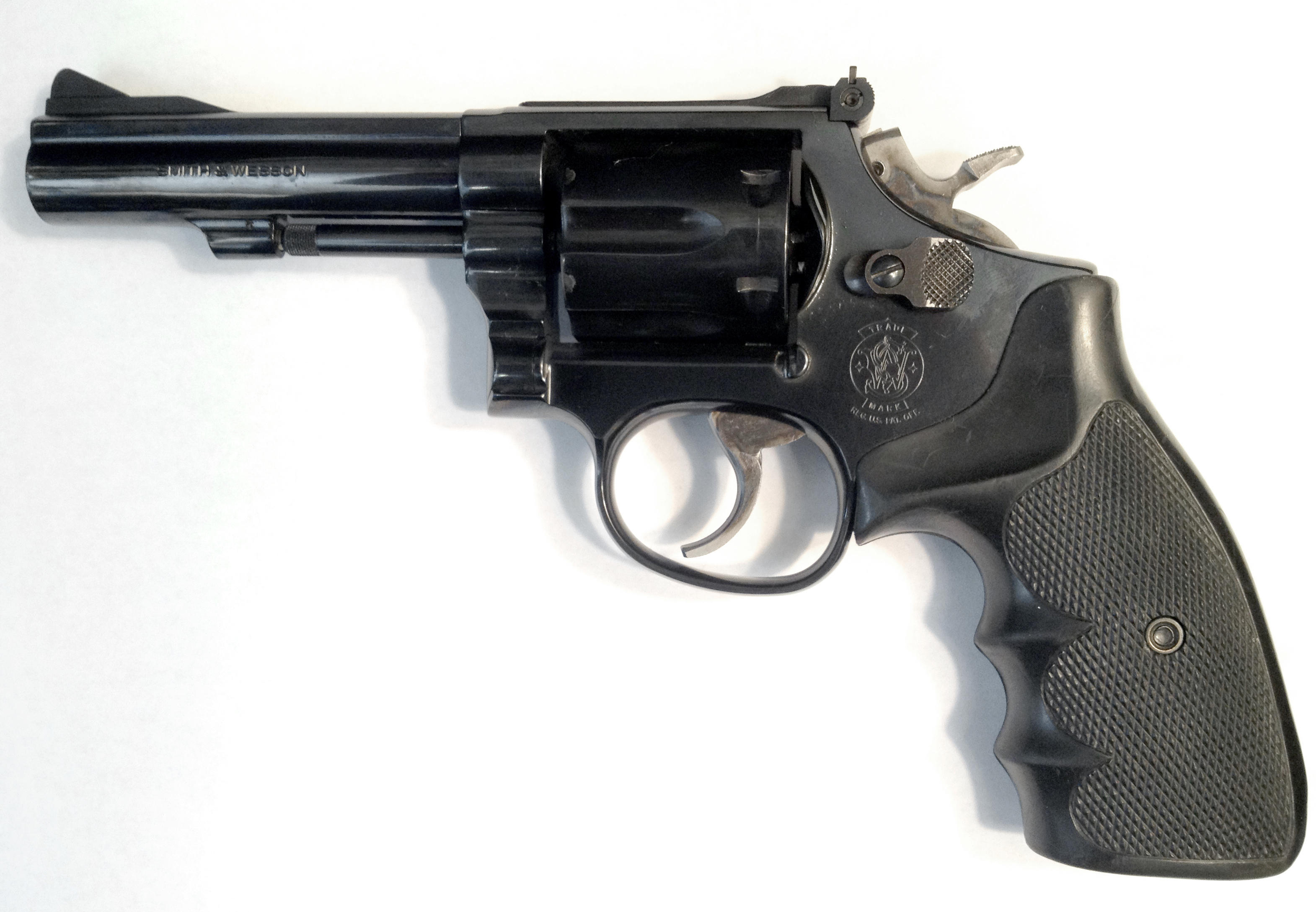 The Smith & Wesson K-38 Combat Masterpiece Revolver Model 15 is a six-shot double action revolver, with adjustable open sights, built on the medium-size "K" frame. It is chambered for the .38 Special cartridge and is fitted with a 4-inch (100 mm) barrel, though additional barrel options have been offered at various times during its production. Originally known as the K-38 Combat Masterpiece, it was renamed the Model 15 in 1957 when all Smith & Wesson revolvers were given numerical model numbers. Model 15-7 was introduced in 1994 with the following changes - Synthetic grips introduced, drill and tap frame, change rear seat leaf, change extractor.